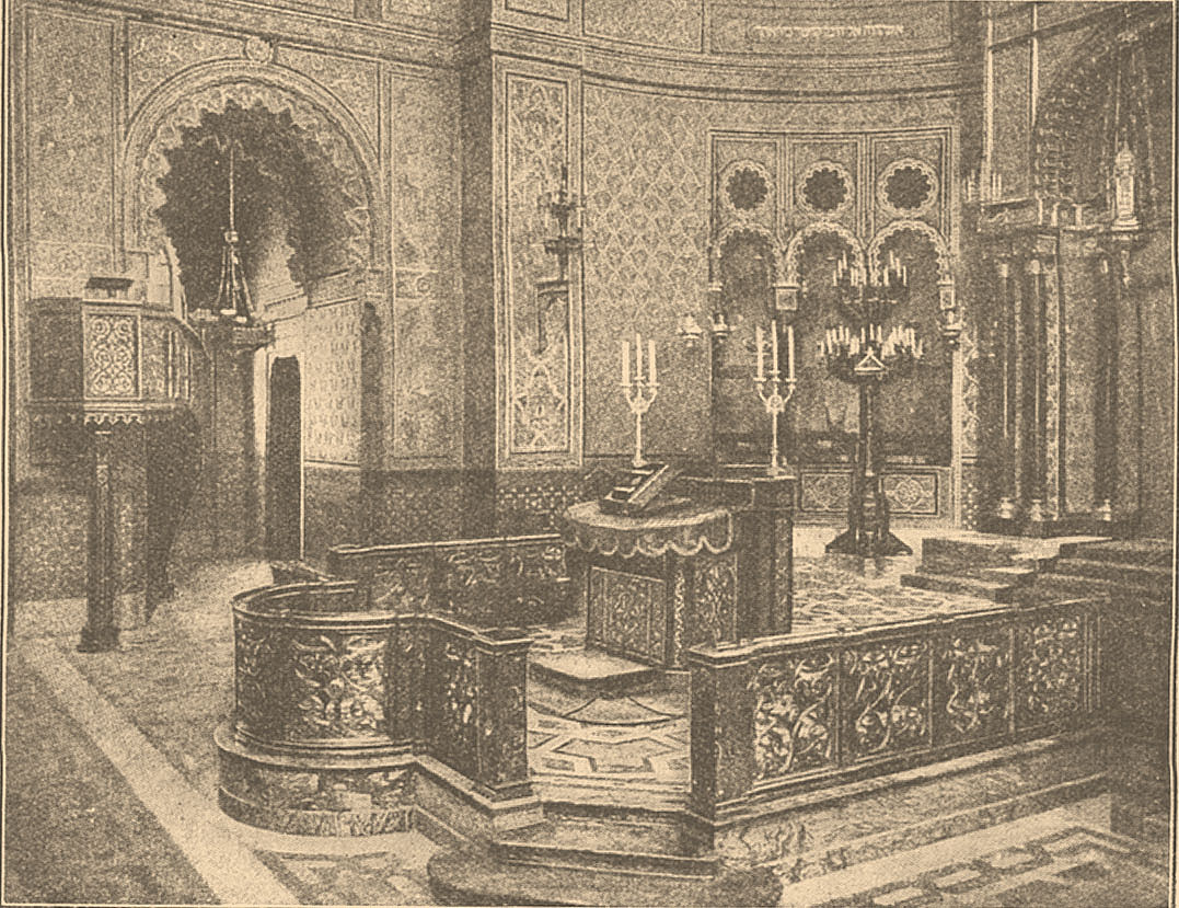 Illustration from Brockhaus and Efron Jewish Encyclopedia (1906—1913)